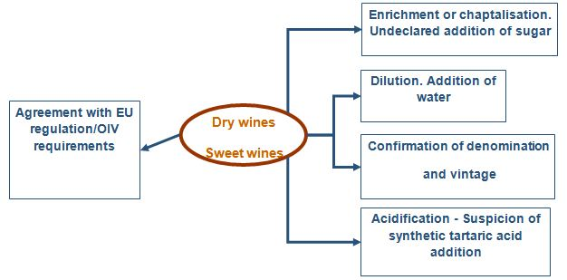 Figure 10 - Applications of SNIF-NMR and IRMS to wine authenticity